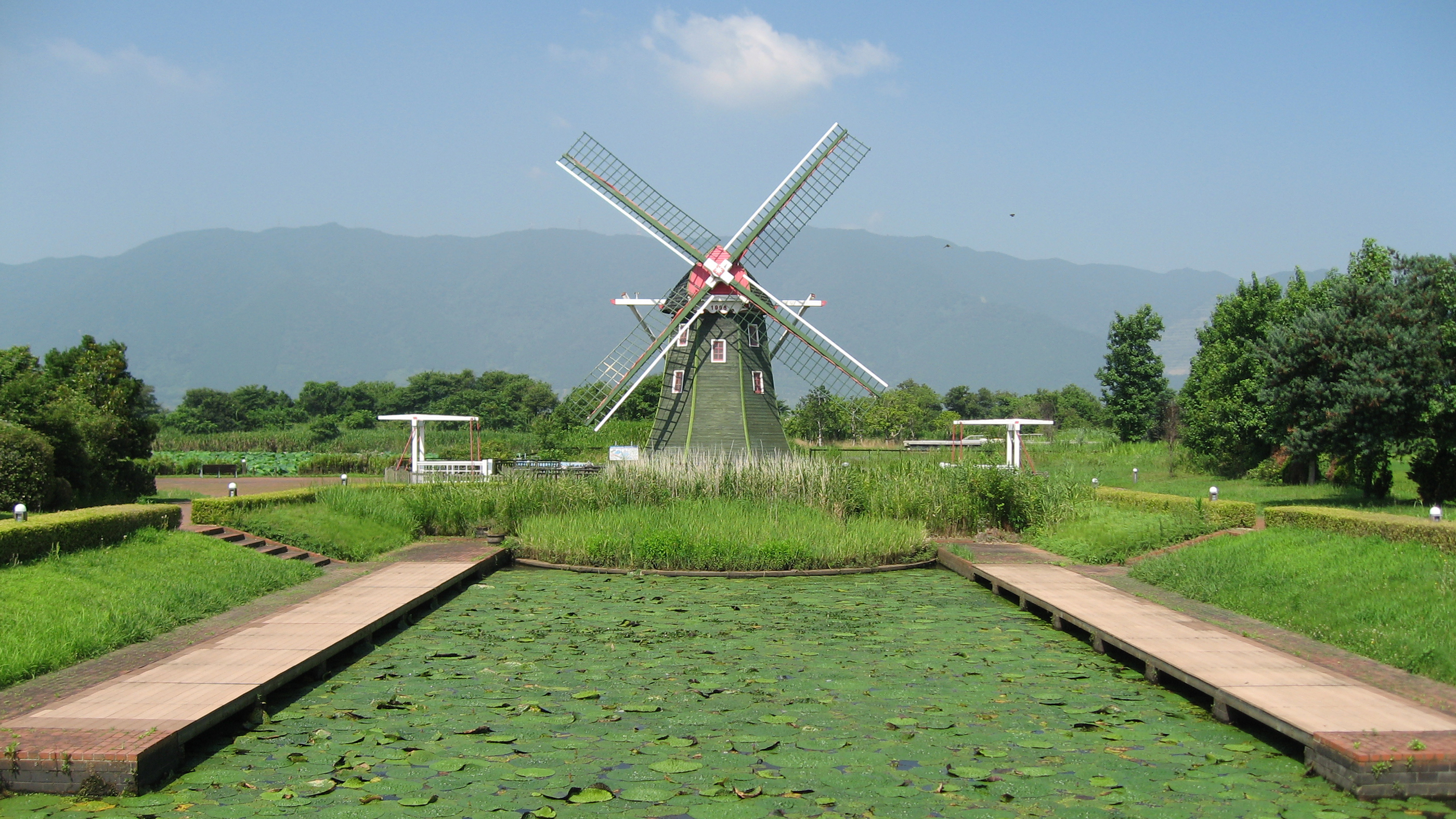 Windmill at Aqua World Suigo Park Center Kaizu, Gifu, Japan.